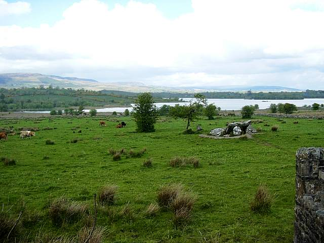 Aghascur near. Keshcarrigan Co. Leitrim